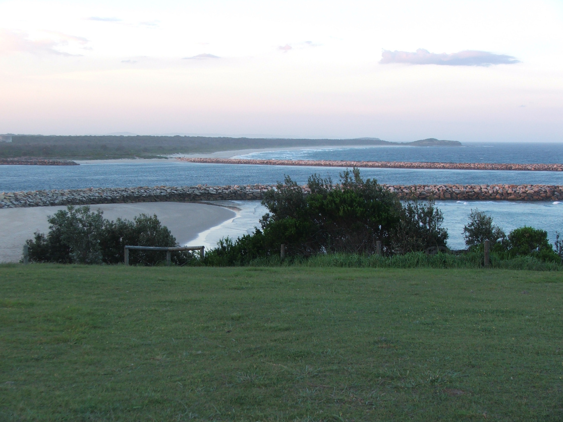 Photographer